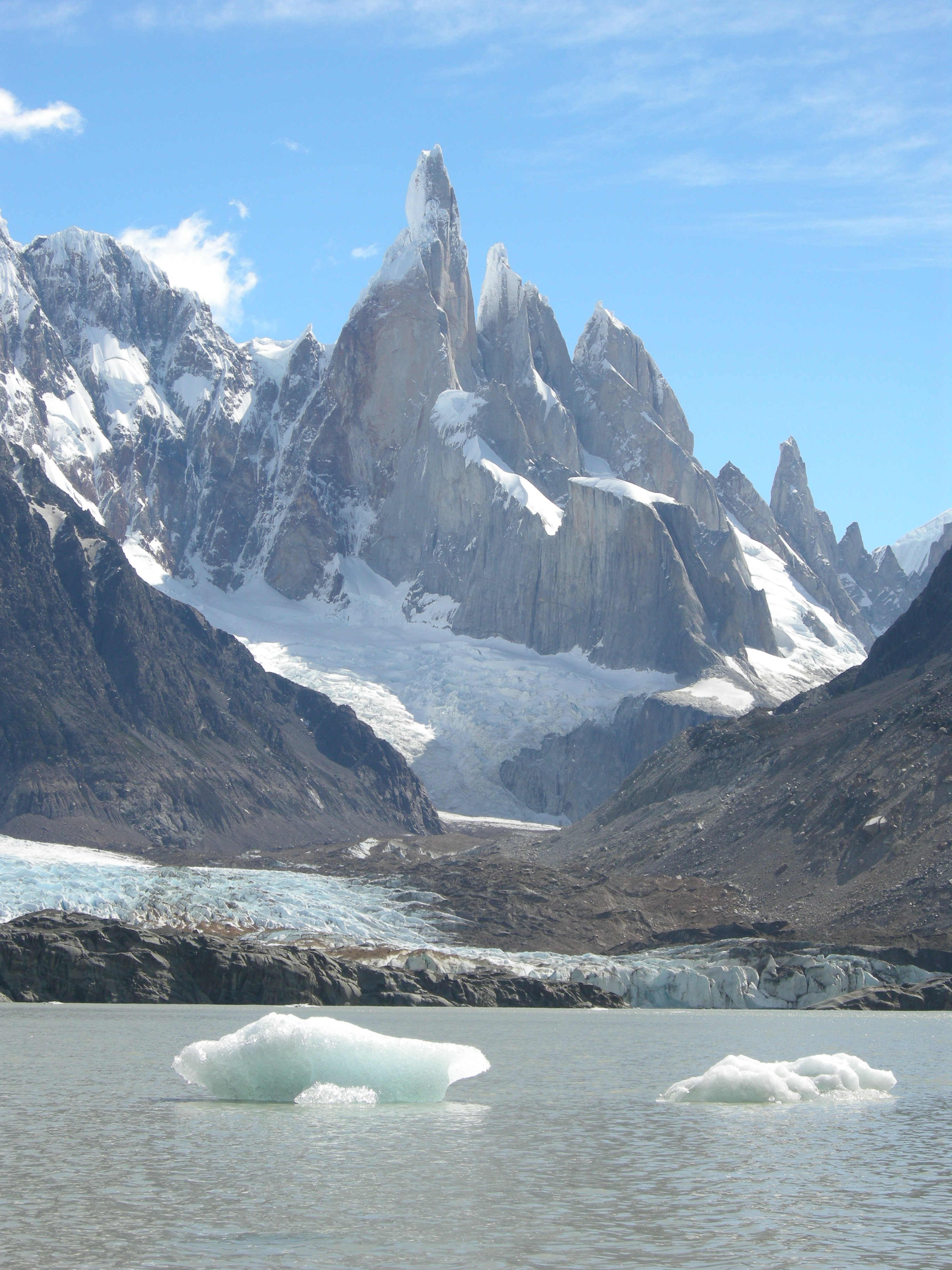 East face of the Cerro Torre, with the Torre glacier and Laguna Torre (including 2 icebergs). Los Glaciares National Park (north part), Santa Cruz province, Argentina.